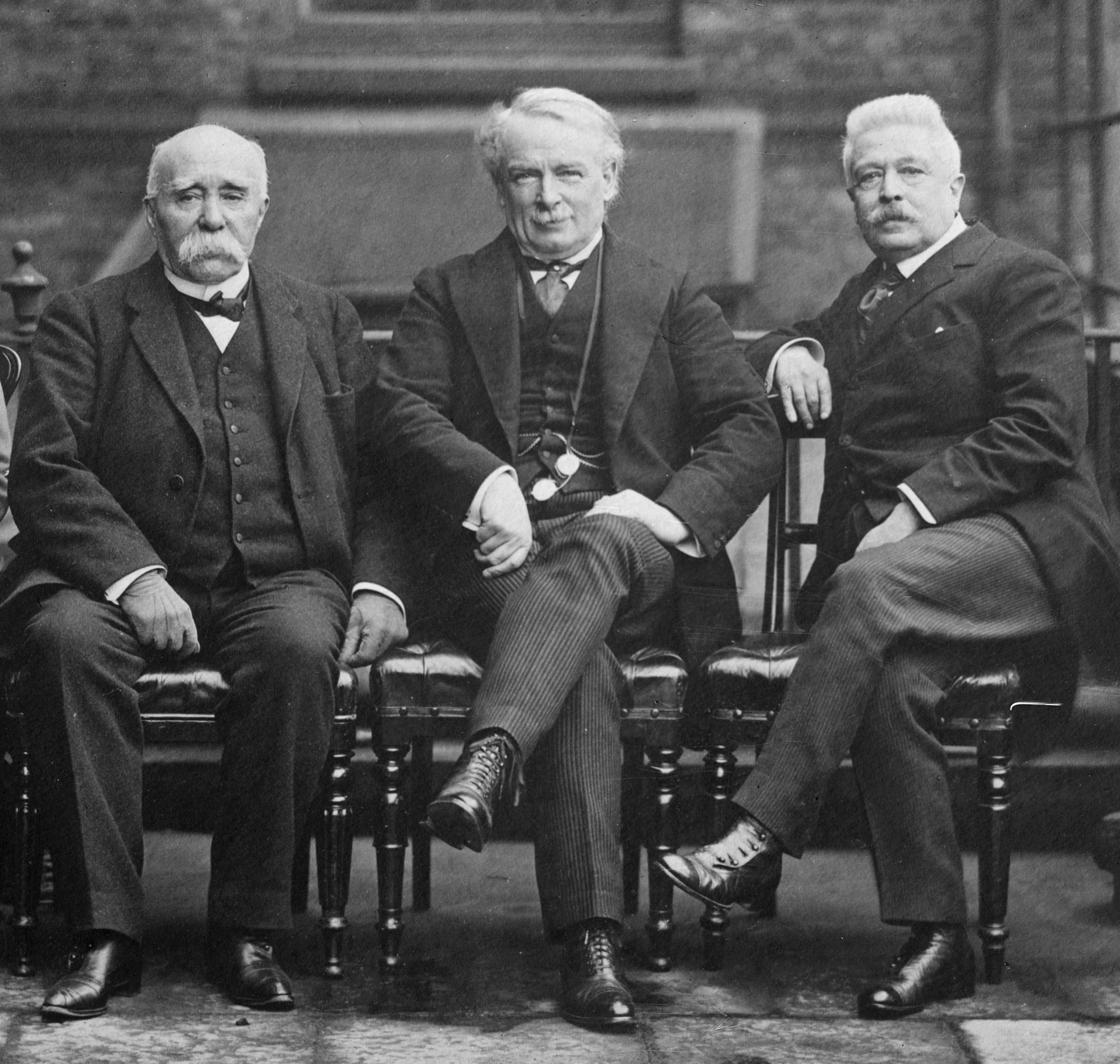 French Prime Minister George Clemenceau, British Premier David Lloyd-George and Italian Prime Minister Vittorio Emanuele Orlando.